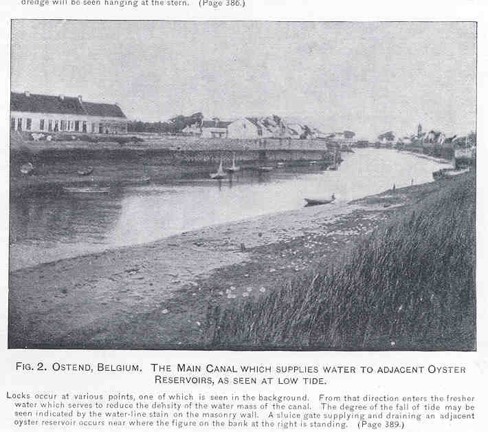 Ostende, Belgique : Canal principal qui apport ses eaux aux bassins adjacents "réserves d'huîtres", ici à marée basse